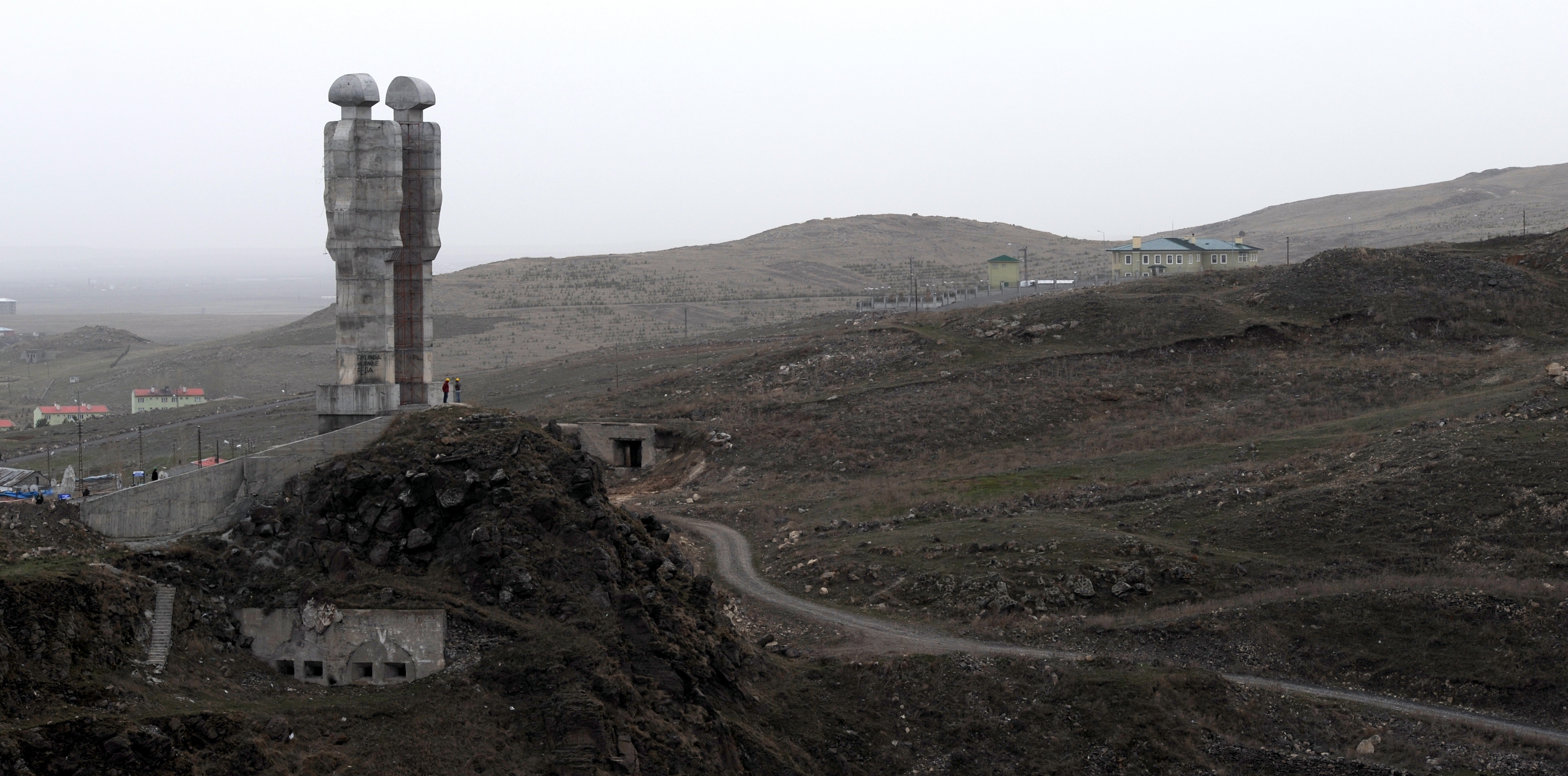 Monument to Humanity (İnsanlık Anıtı) by Mehmet Aksoy in Kars, Turkey. In 2011 it was dismantled. References